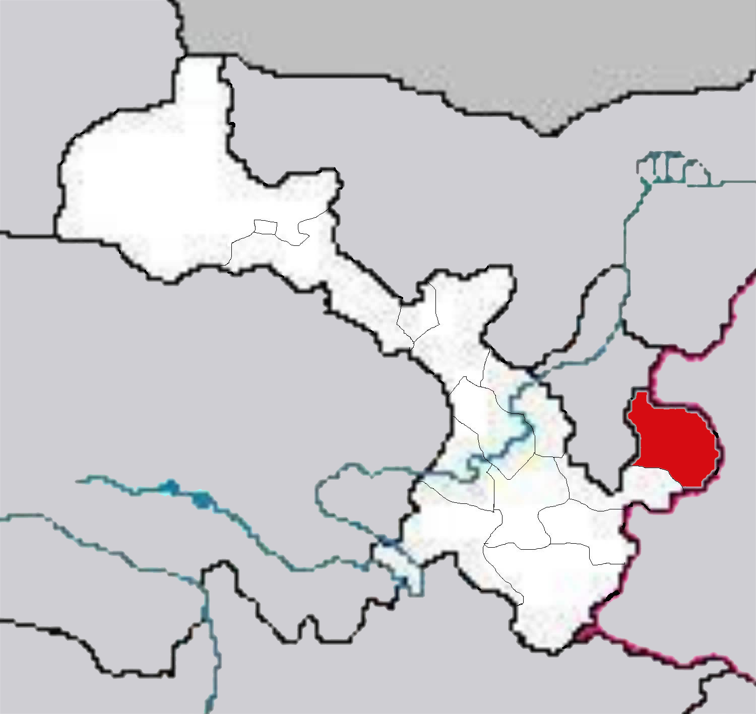 maps of Gansu Province of China